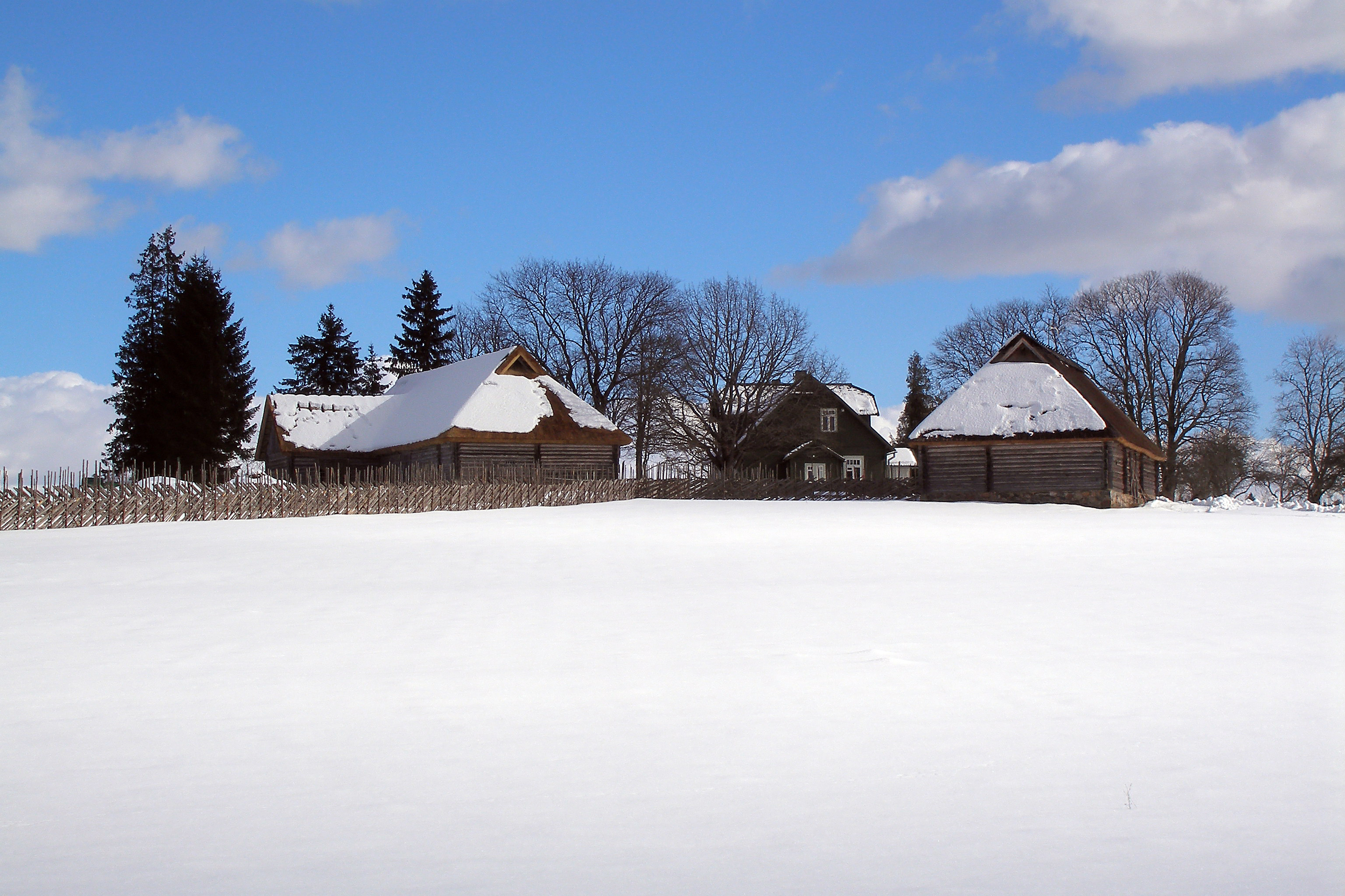 Tammsaare-Põhja farm, birthplace of Estonian writer A.H. Tammsaare. The view is also featured on the Estonian 25 krooni banknote.